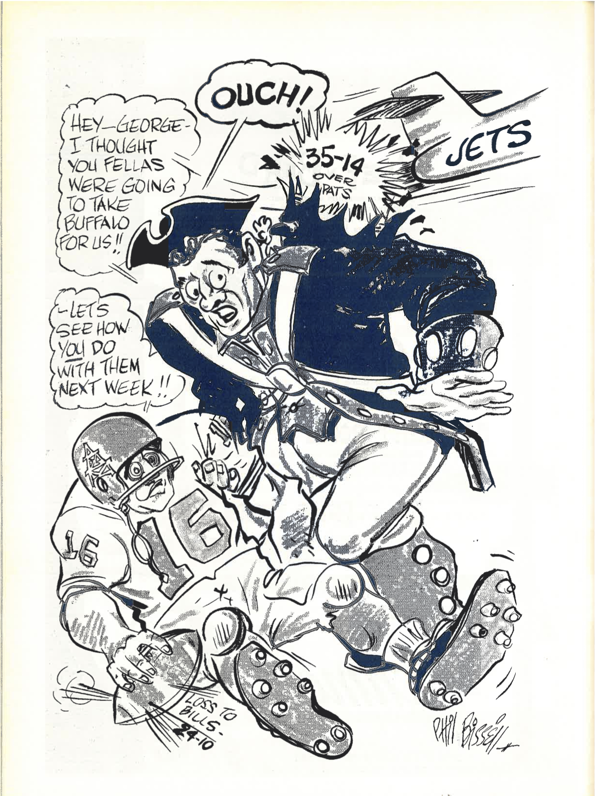 From the November 6, 1964 Chargers-Patriots game program at Fenway Park. Bissell created similar cartoons for the Patriots throughout the 1960s, see article here Description: Pat Patriot takes one in the back from the Jets while remonstrating with George Blanda of the Houston Oilers for their failure to beat Buffalo.